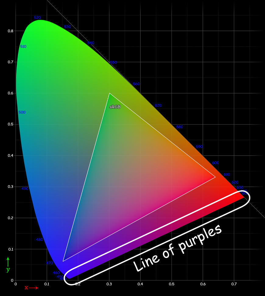 The CIE chromaticity diagram showing the line of purples circled in white. Note that the colors in this file are being specified using sRGB. Areas outside the triangle cannot be accurately rendered.